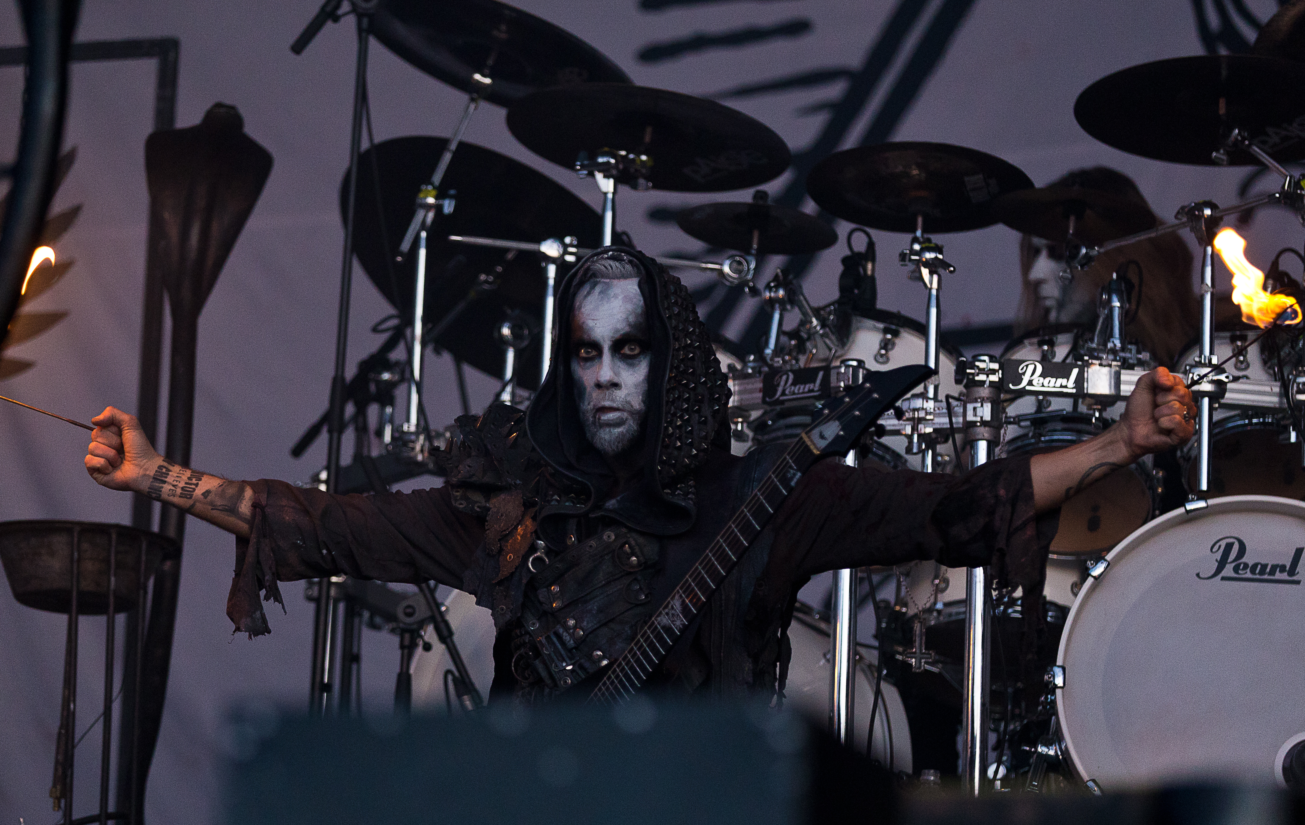 The Polish death metal band Behemoth at the Rockharz Open Air 2015 in Ballenstedt/Germany.